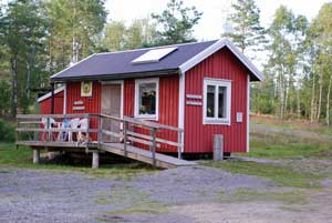 Watch hut